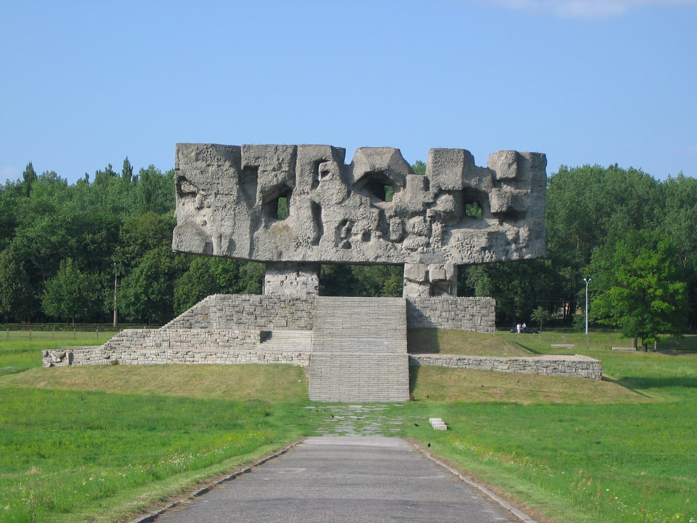 Lublin, Majdanek -Munument of Fight and Torment according to a project of Wiktor Tołkina